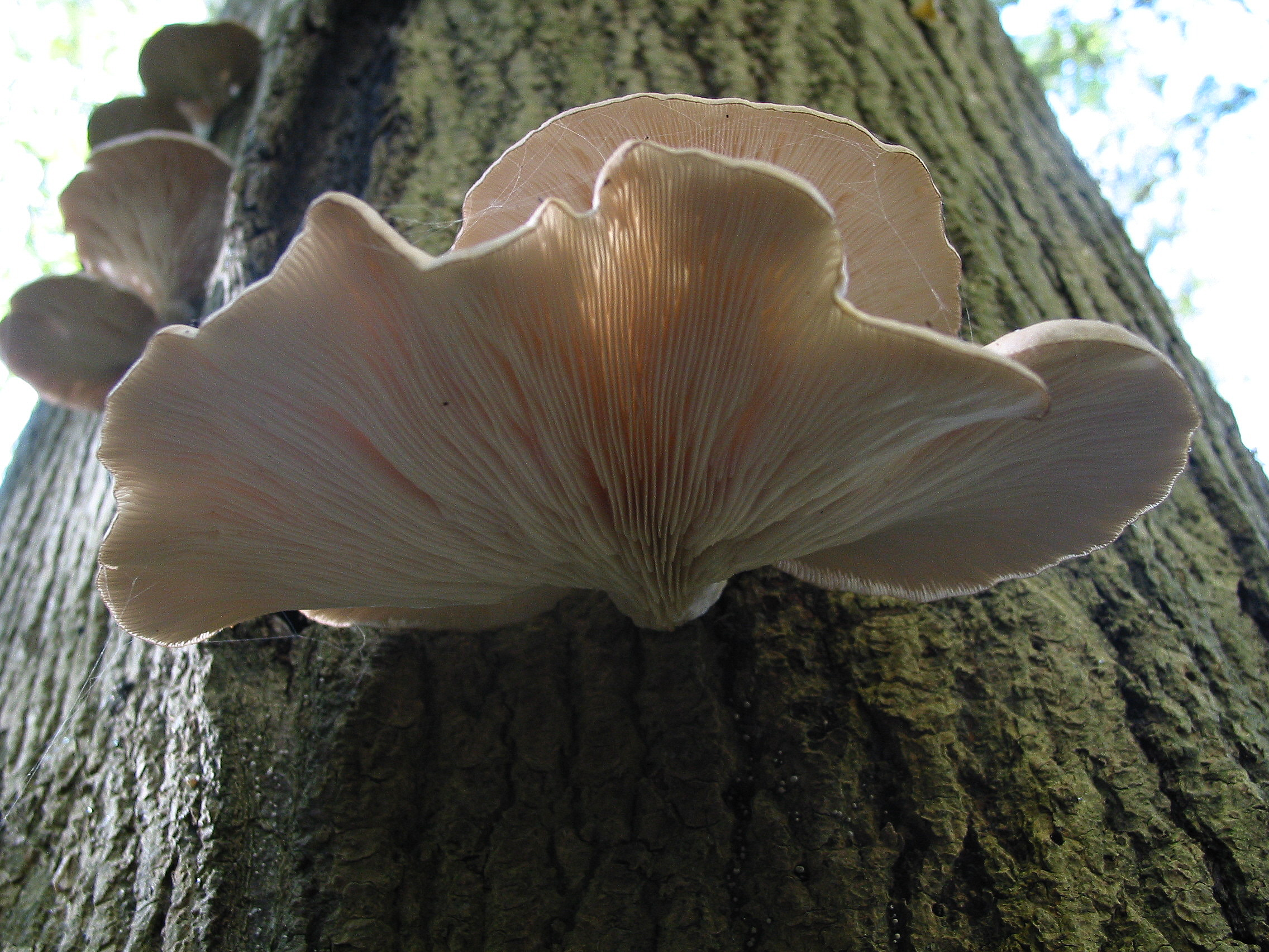 Oyster mushrooms, Havré, Belgium